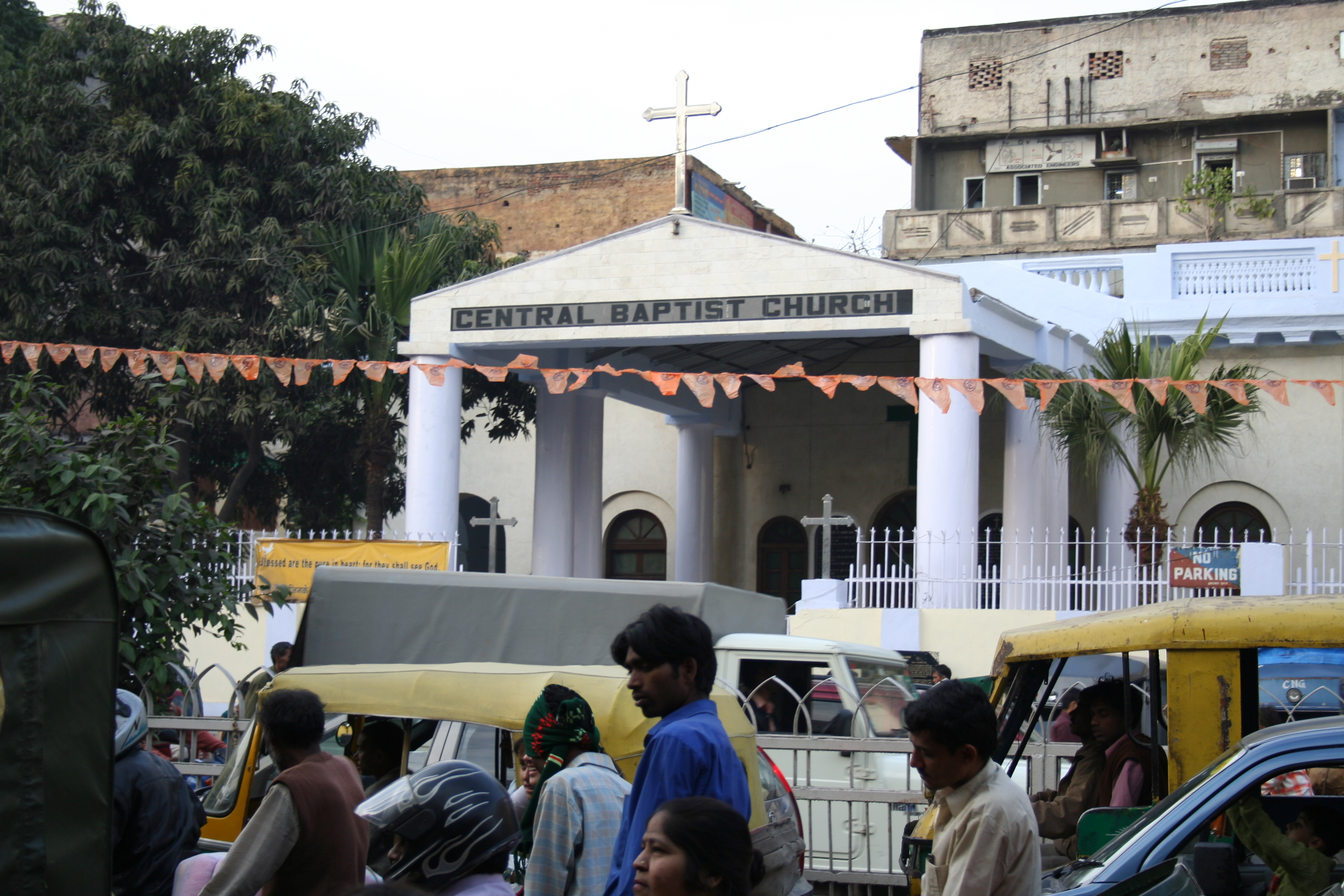 Central Baptist Church, Chandni Chowk